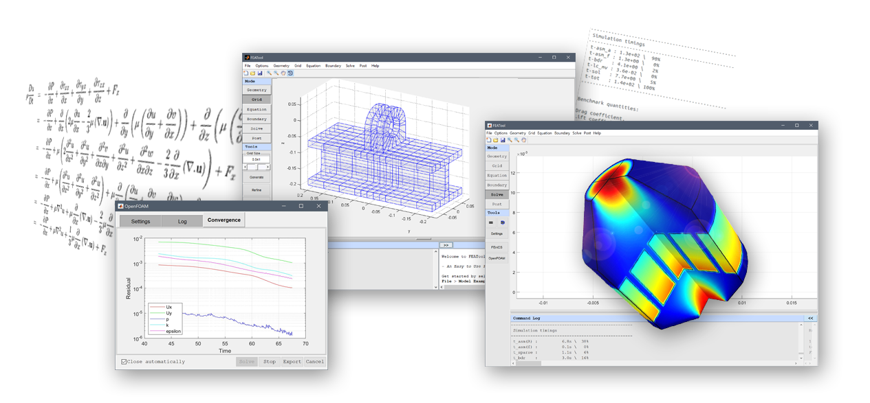 FEATool Multiphysics FEA Simulation Toolbox Banner